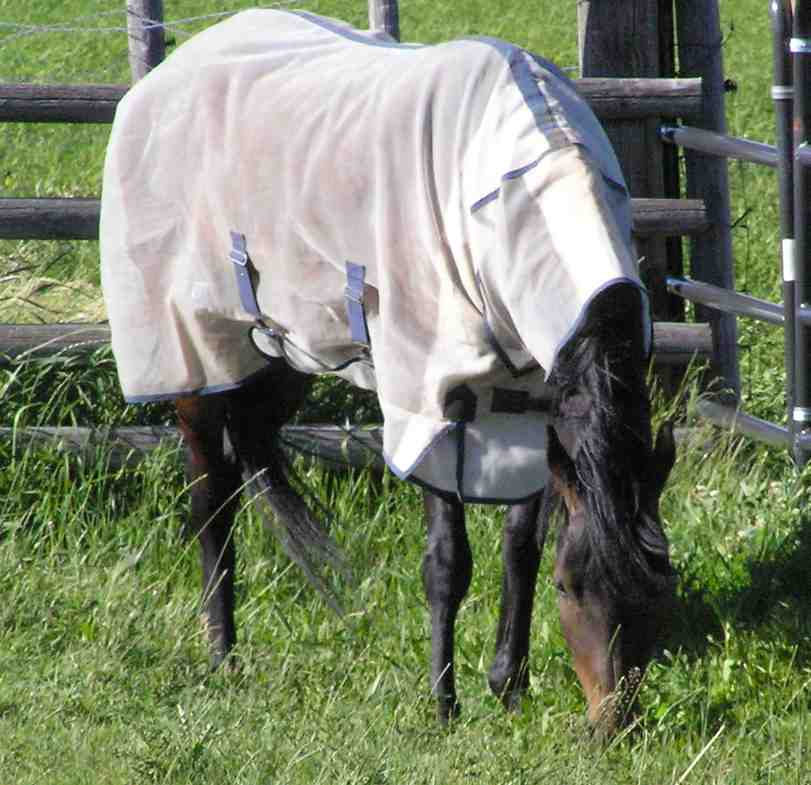 A horse wearing a fly sheet that keeps away insects. Note also a neck cover